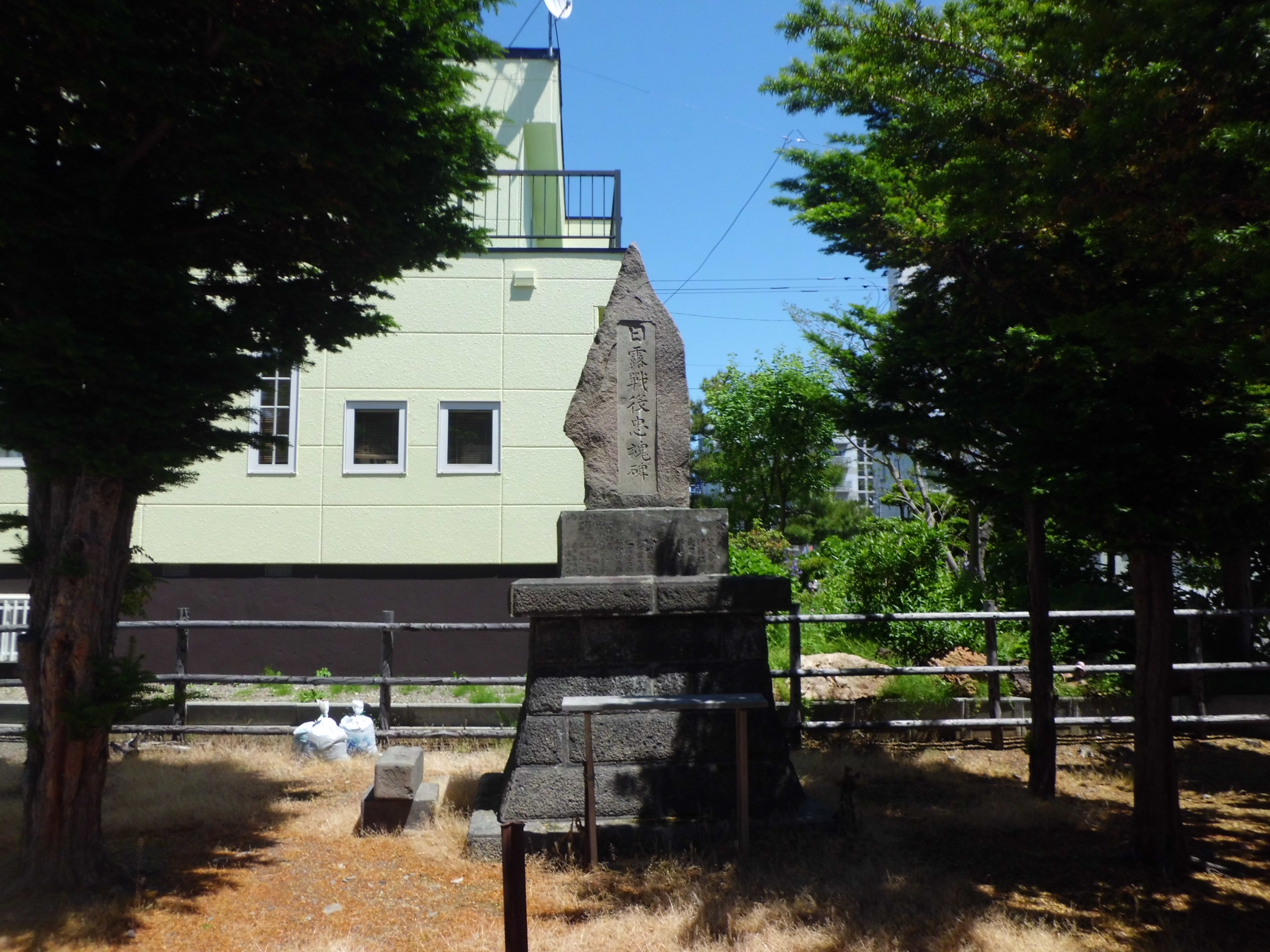 Russo-Japanese War Chûkon-hi at Sapporo-mura Shrine